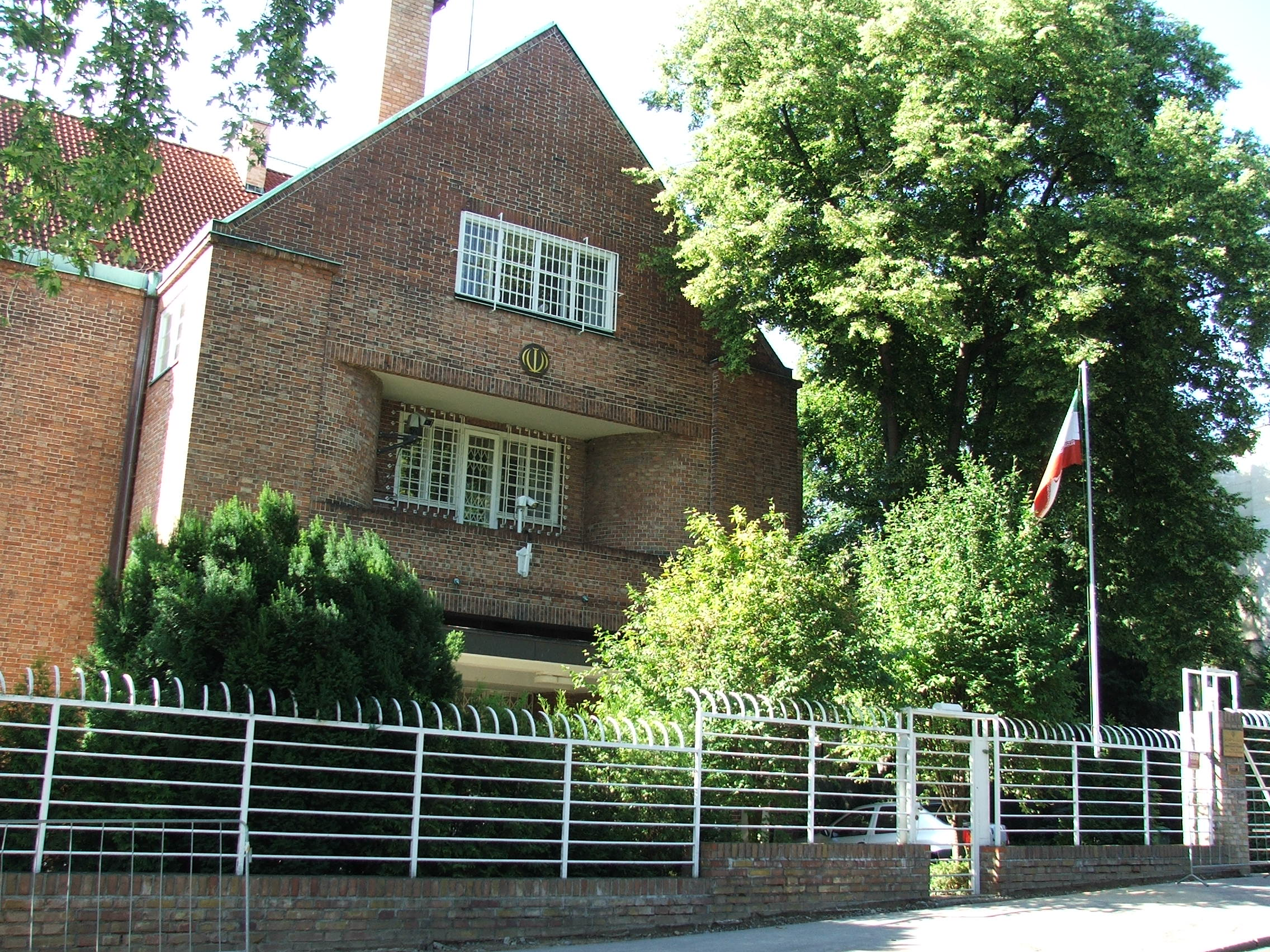 Embassy of Iran in Prague, Czechia